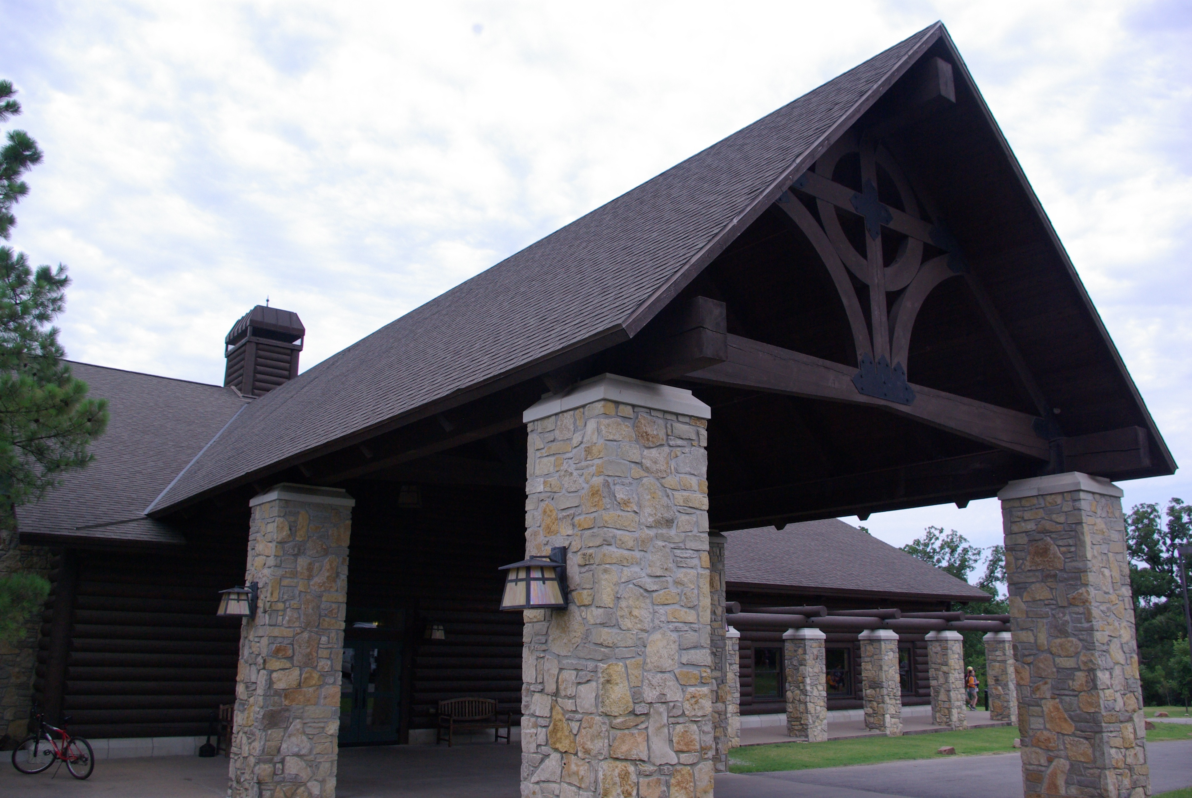 David E. and Cassie Temple Conference Center